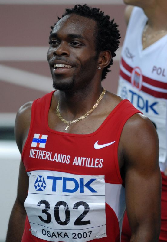 Churandy Martina during World Championship 2007 in Osaka